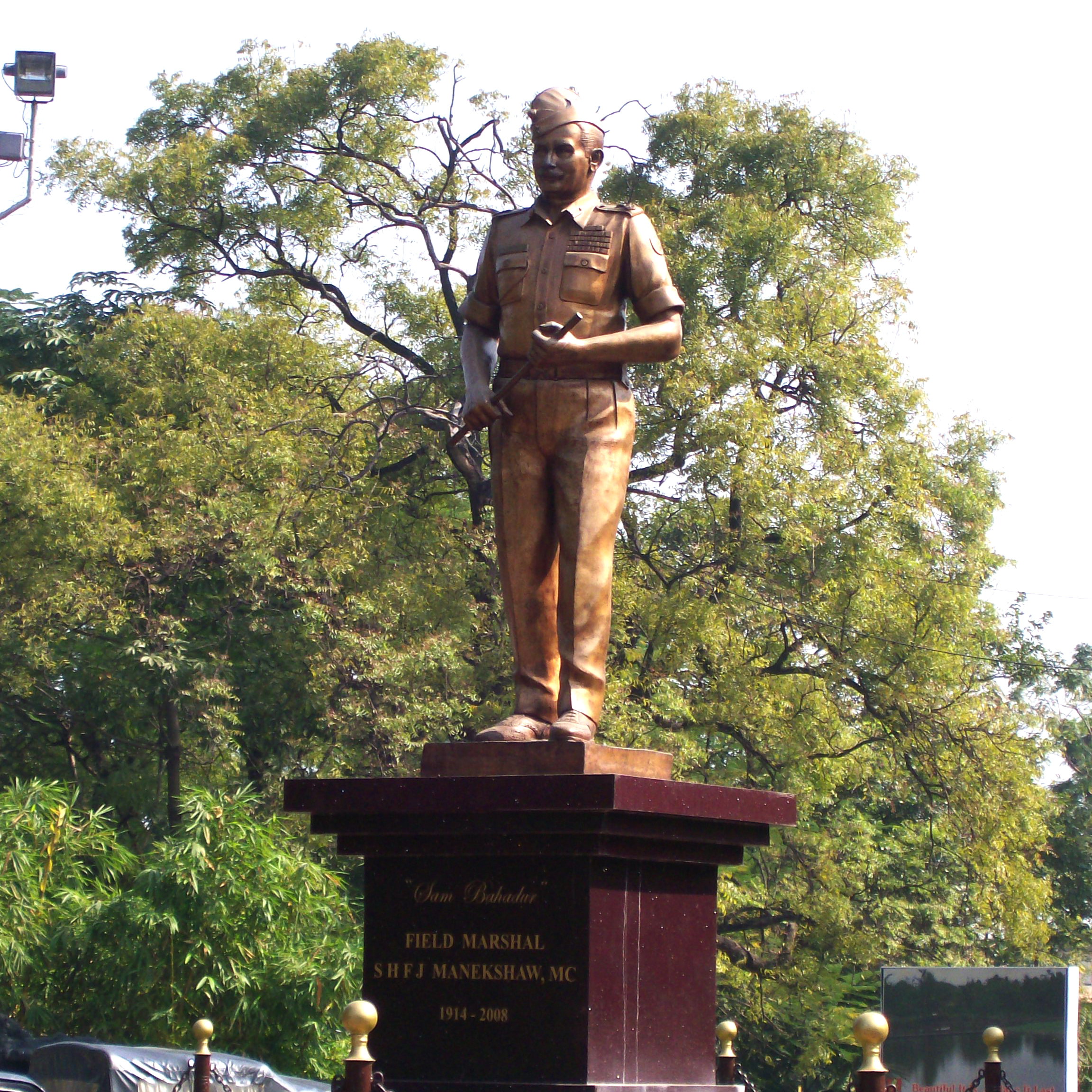 A statue of Sam Manekshaw on Menckji Mehta Road in Pune Cantonment.